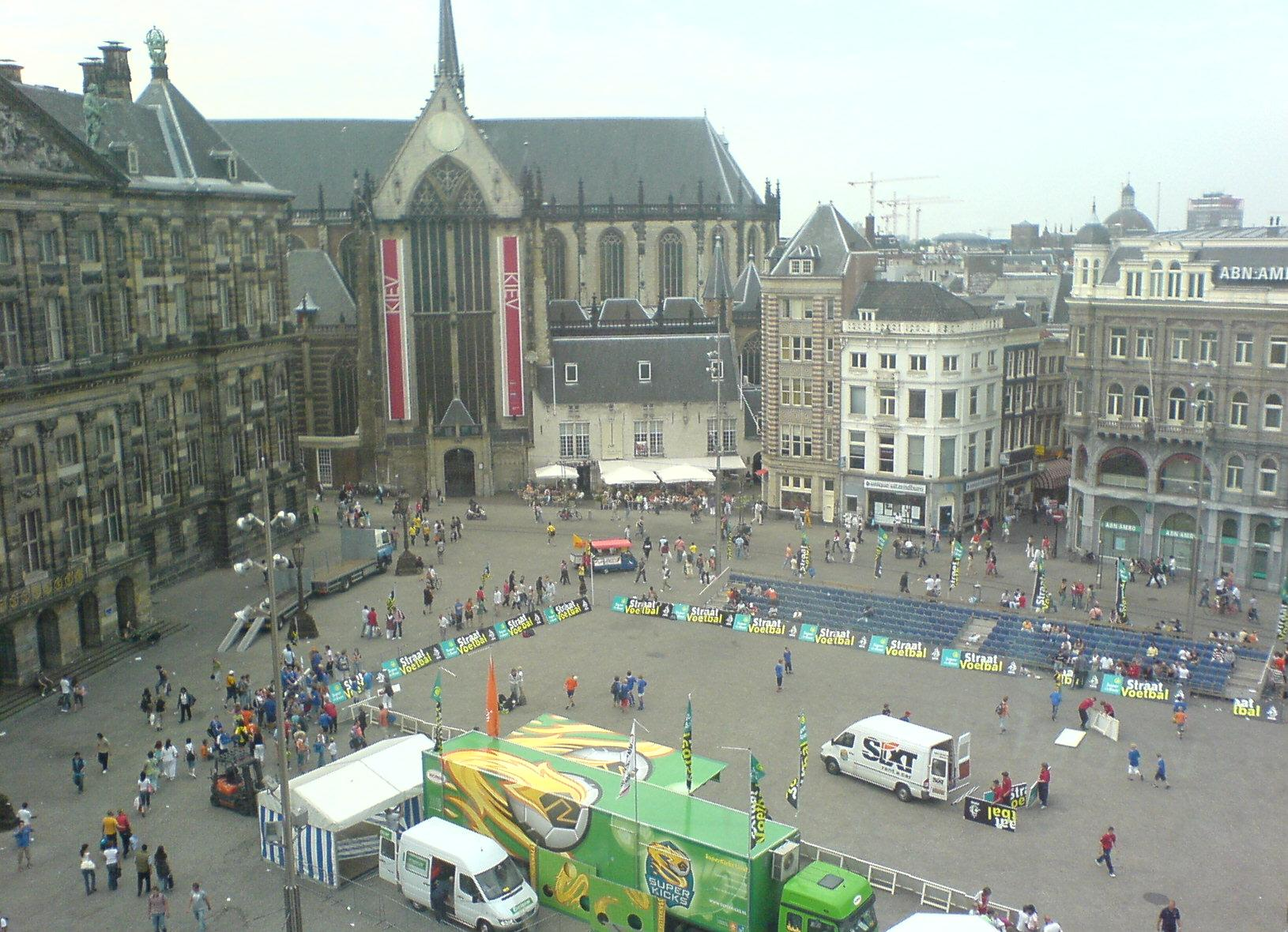 The Dam Square in Amsterdam. The author is me, Jostein Torstensen.